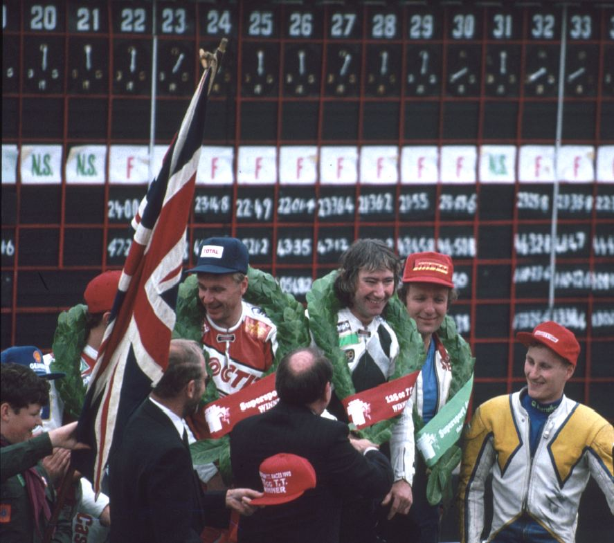 Joey Dunlop 1992, his 14th Victory